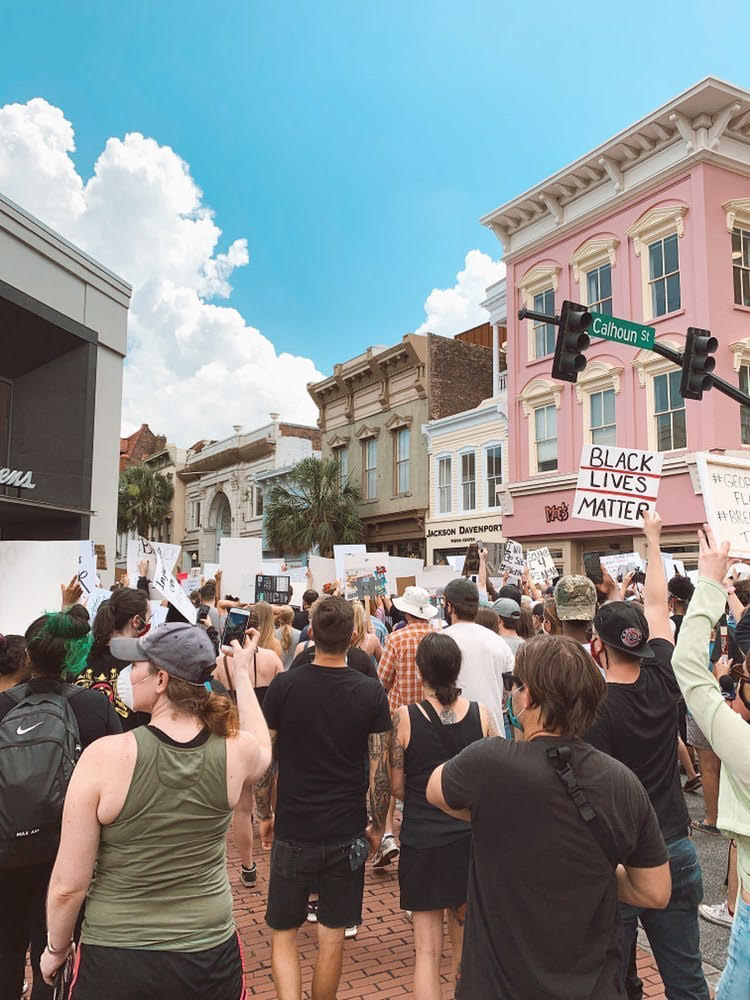 George Floyd Protest in Charleston, South Carolina. Protesters leaving Marion Square at Calhoun St. and King St. and heading down King St. Image Hillary Conheady